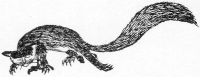 Kuda-gitsune (a small fox-like animal used in sorcery) from the Shōzan chomon-kishū